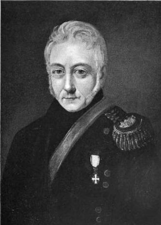 Adam Tobias von Lützow (1775-1844), Danish Major General